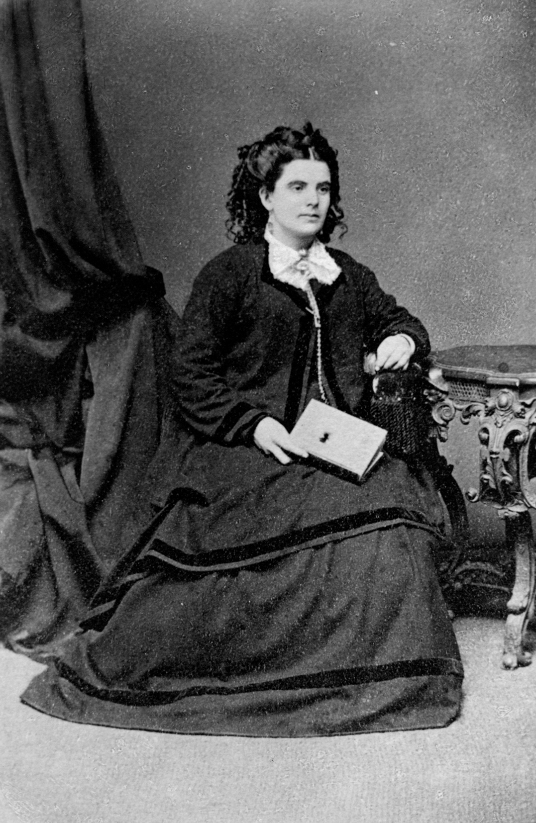 From Rachel Evans Paynter Davies' (aka Rahel O Fôn) great grand daughter's archives. Mia Grosjean